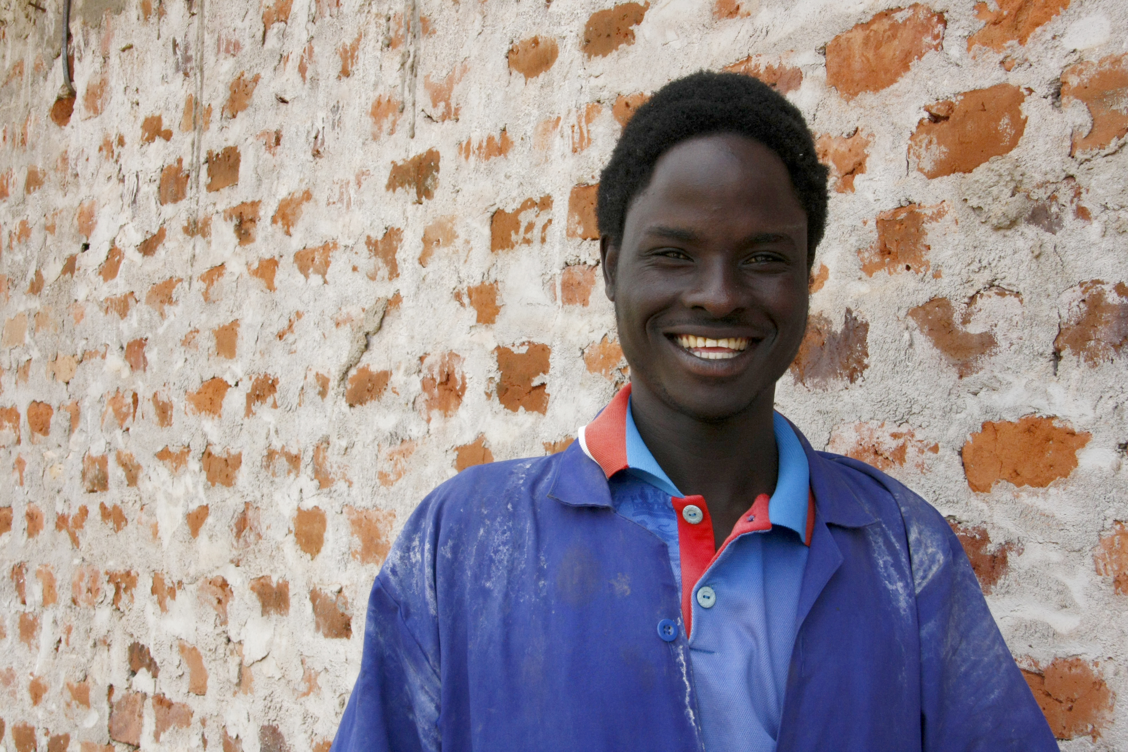 Some 60,000 children were abducted by the Lords Resistance Army during their 20 year campaign of terror in the Northern Region of Uganda. David Ojok was abducted at the age of 13, and forced to become a child soldier. Now he is working as a bricklayer, thanks to training he received at the Northern Uganda Youth Development Centre, which is supported by UK aid. "Without this training," says David, "I possibly would be dead. I would have been pushed into stealing for food. The centre has changed my life." Credits Picture: Pete Lewis/Department for International Development Terms of use This image is posted under a Creative Commons - Attribution Licence, in accordance with the Open Government Licence. You are free to embed, download or otherwise re-use it, as long as you credit the source as 'Department for International Development/Pete Lewis'.